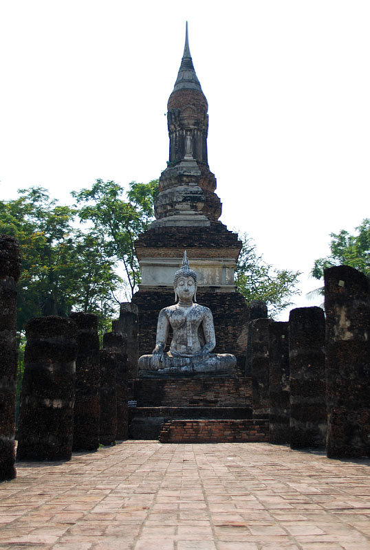 Sukhothai Historical Park, Sukothai, Thailand